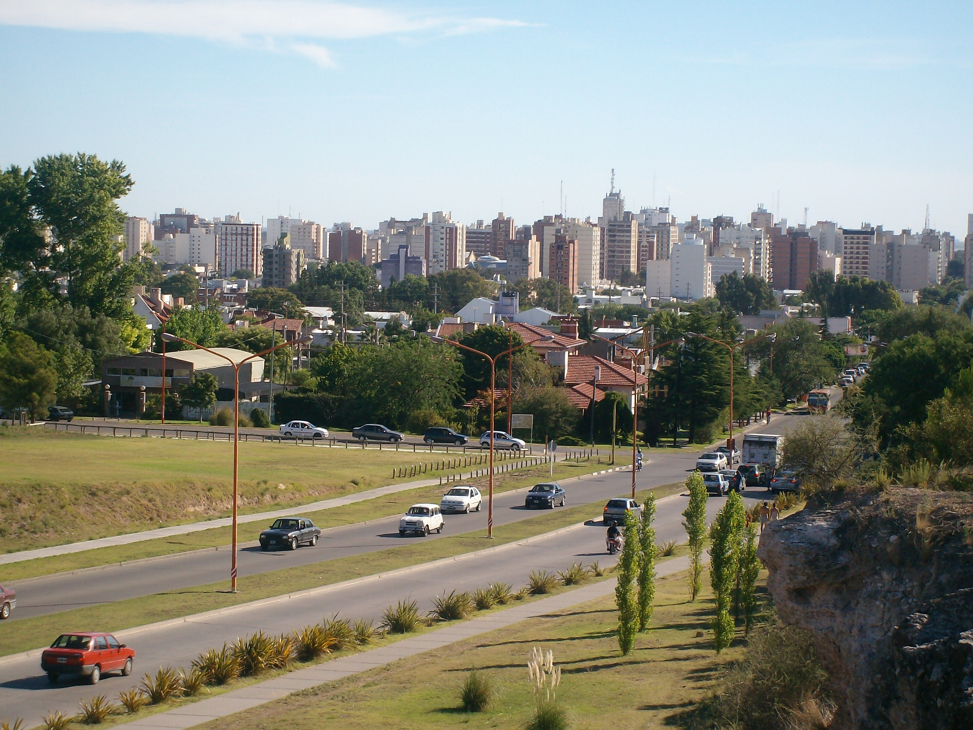 Bahía Blanca